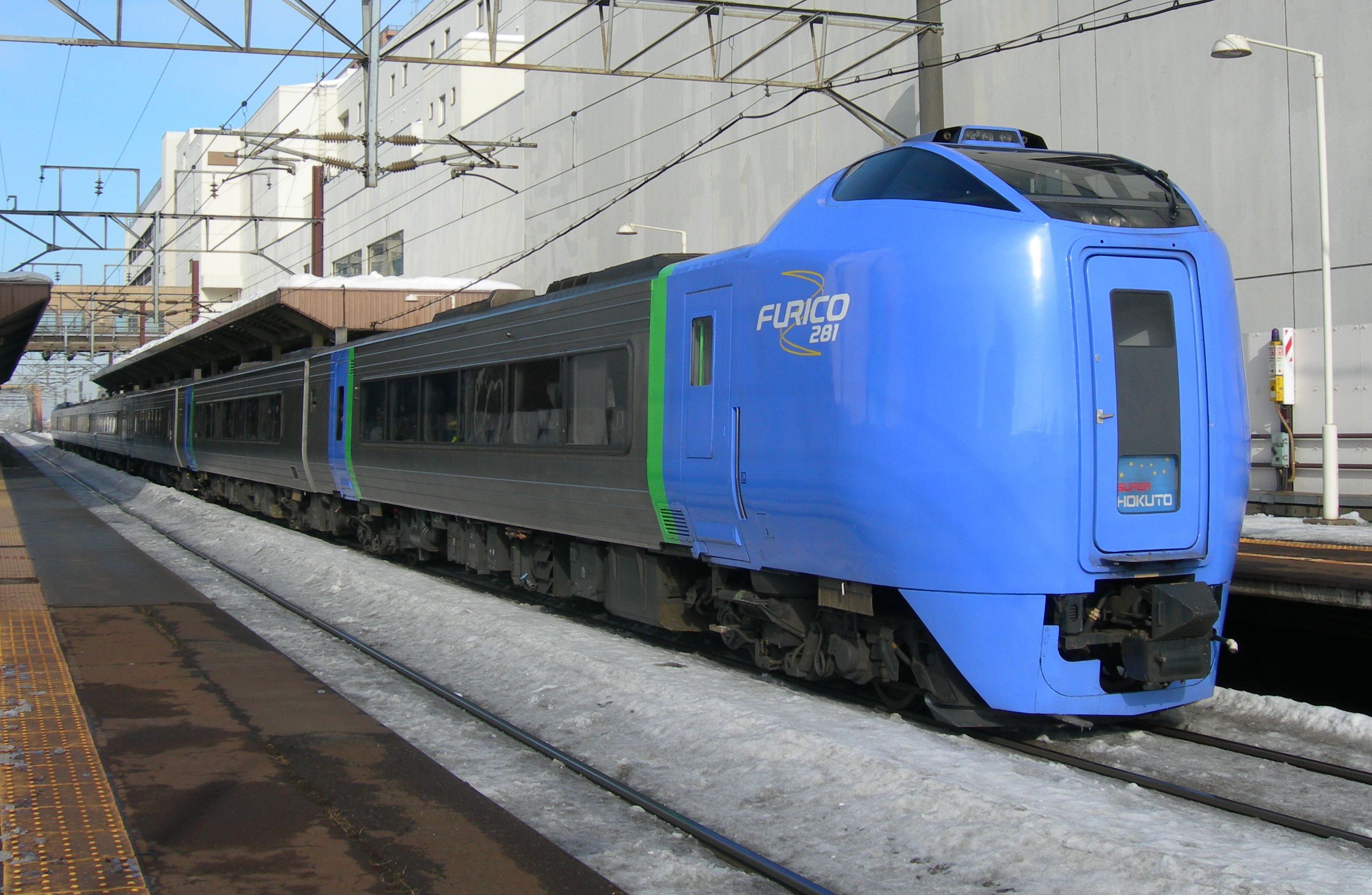 JR Hokkaido KiHa 281 series DMU on a Super Hokuto service at Shin-Sapporo Station